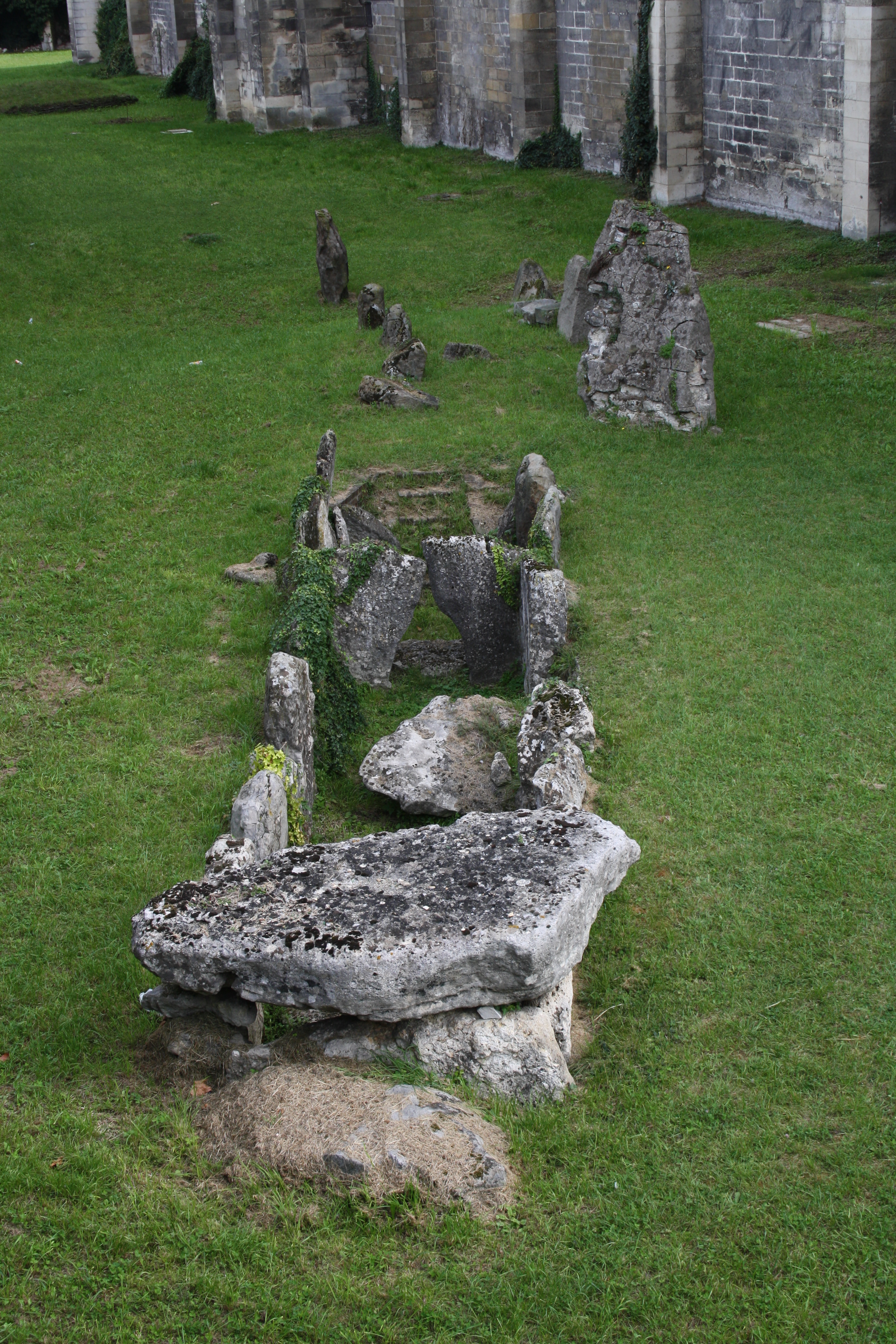 Château Vieux (old castle in french) located Charles de Gaulle place in Saint-Germain-en-Laye, France. House of the National Archaeological Museum (France).